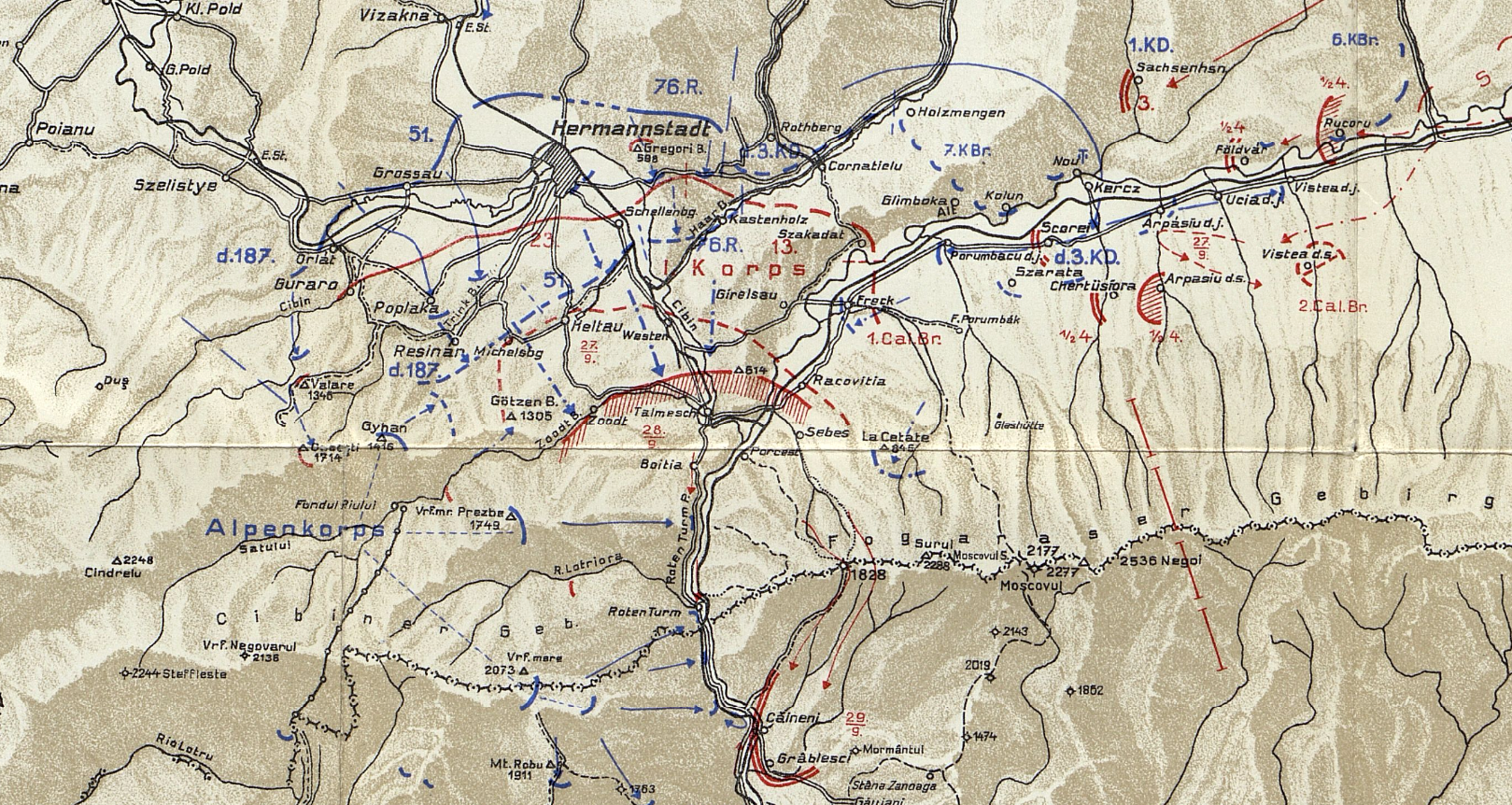 Romanian Front in WWI - The battle of Sibiu, 1916